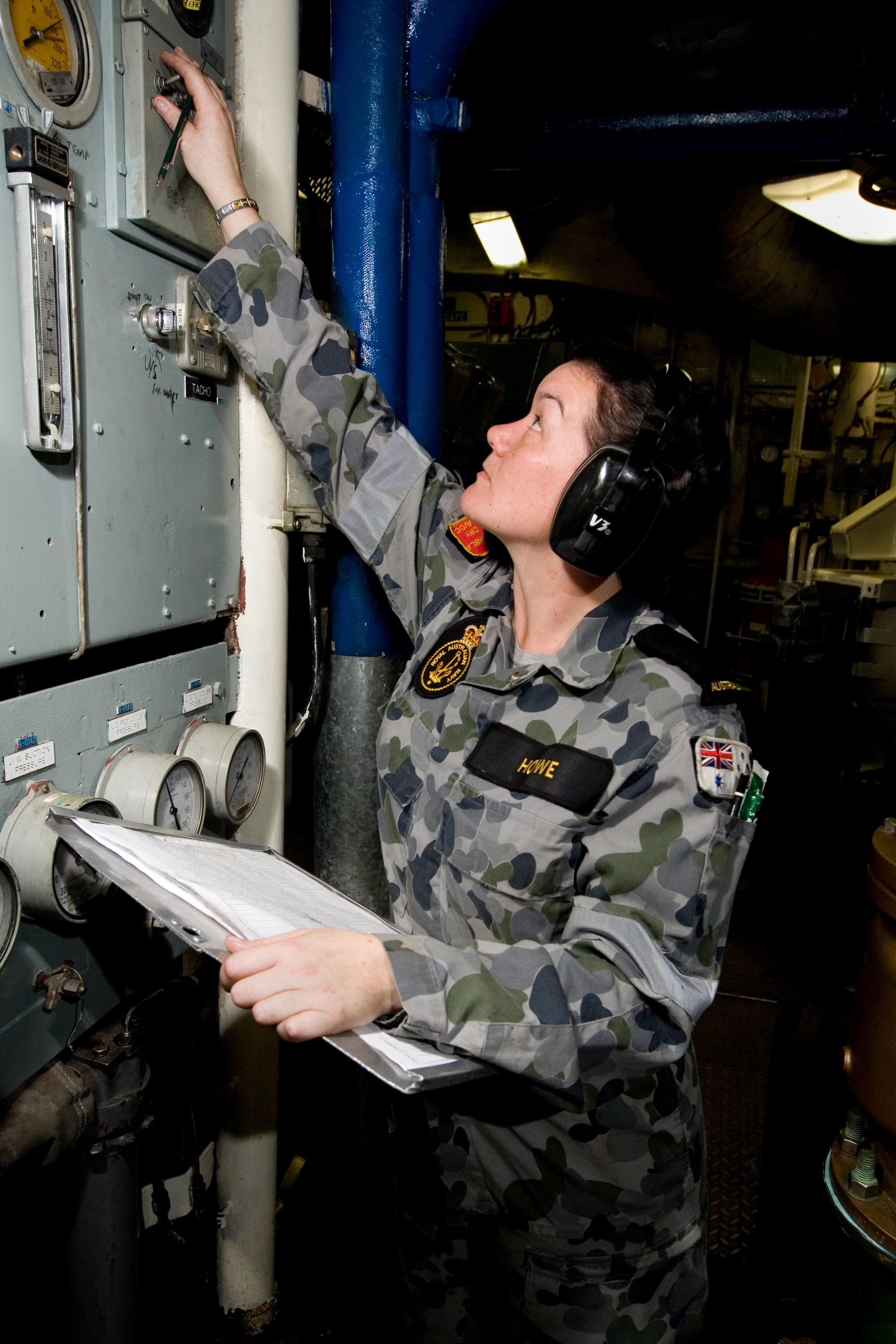 PACIFIC OCEAN (June 13, 2010) Royal Australian Navy Seaman Marine Technician Vikki Howe, from Moora, Australia, checks pressures on a diesel generator in enclosed operating station 1 of the Royal Australian Navy amphibious landing platform HMAS Kanimbla (L 51) as part of Rim of the Pacific (RIMPAC) 2010 exercise. RIMPAC is a biennial, multinational exercise designed to strengthen regional partnerships and improve interoperability. (Royal Australian Navy photo by ABIS Peter Thompson/Released)